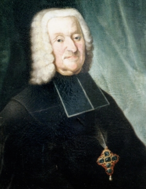 Portrait of Johann Franz Schenk von Stauffenberg (1658-1740), Prince-Bishop of Constance and Augsburg